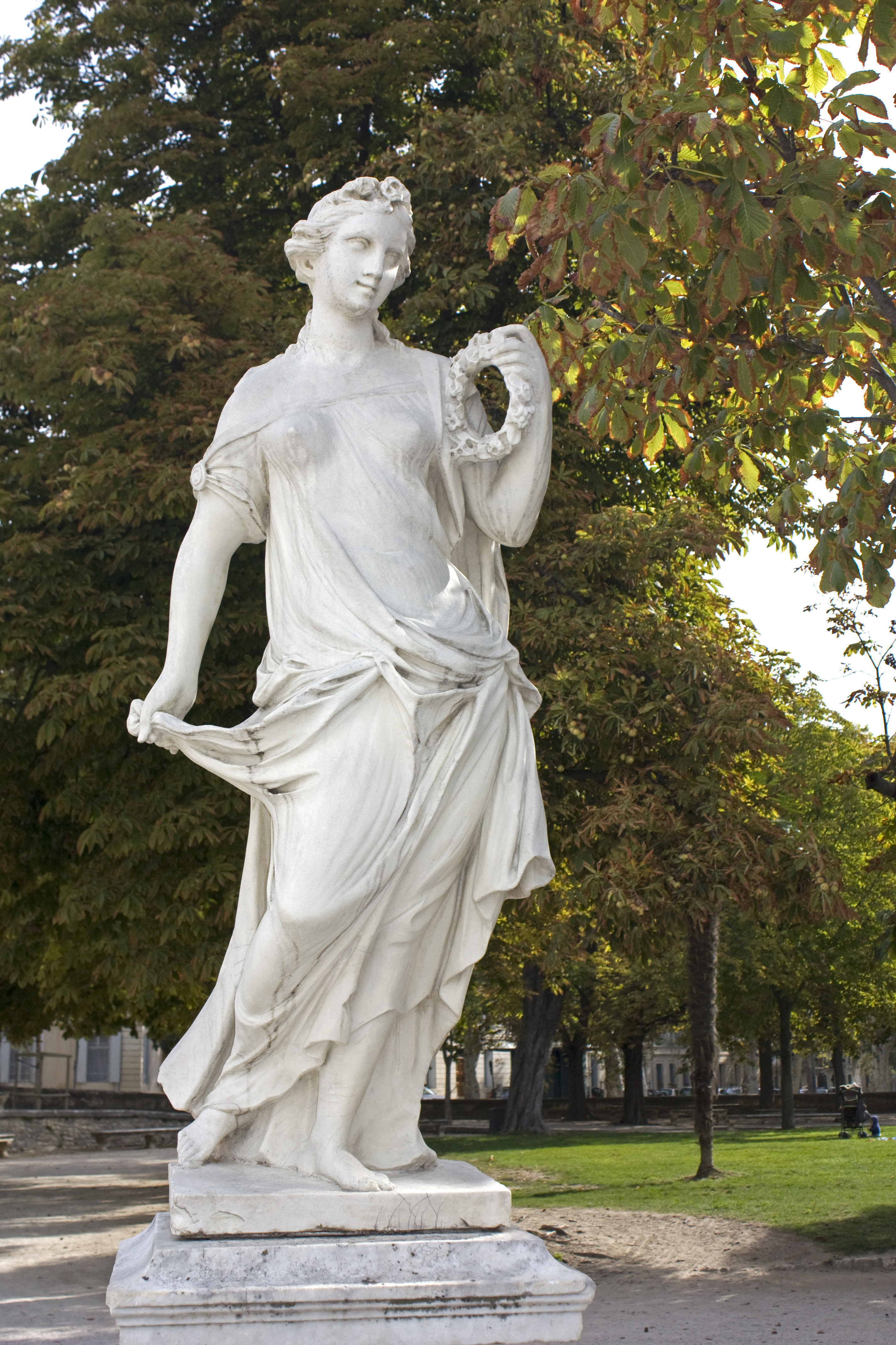 Flora is the nymph Chloris, the goddess of all that blooms, in the agrarian world plays the same role as Venus in the animal world.